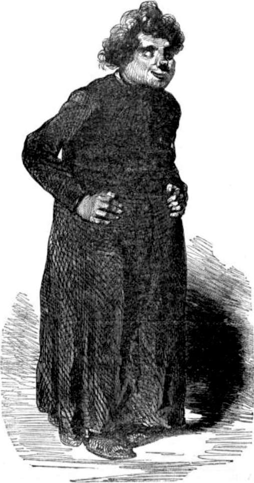 Father Caboccini, an Italian Jesuit, a character from The Wandering Jew (1844) by Eugène Sue (1804-1857).